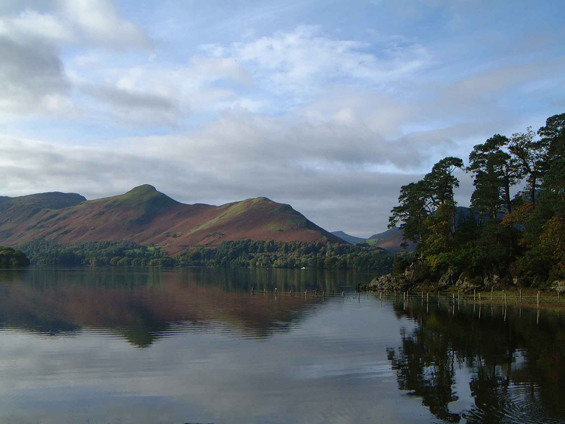 Personal photograph taken by Mick Knapton on 28th October 2001